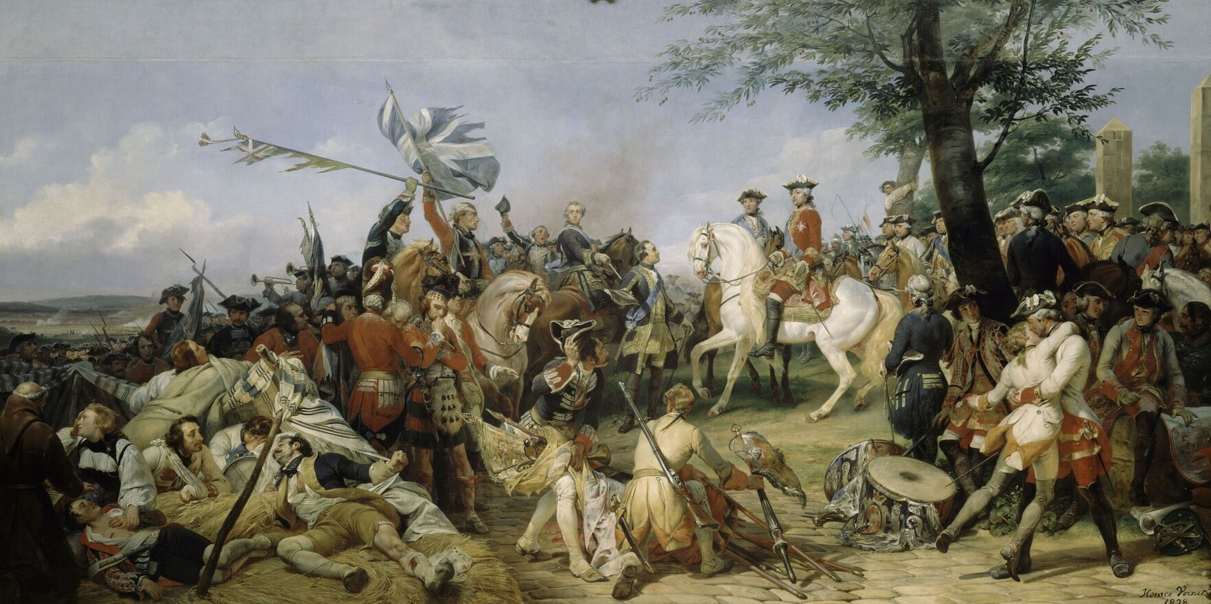 The Battle of Fontenoy, 11th May 1745.